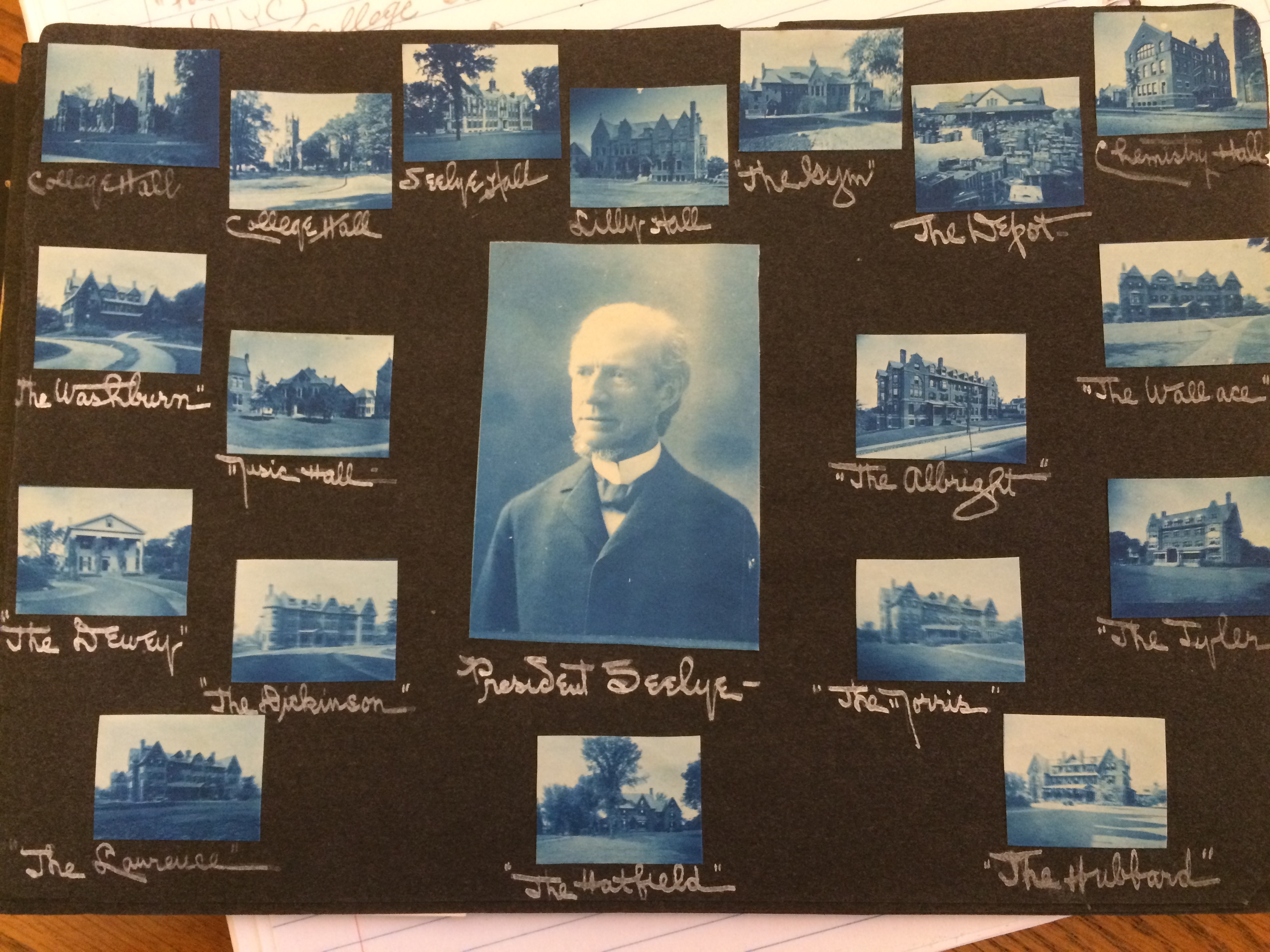 A page from the college photo album of Hannah de Rothschild Scharps, Smith College class of 1906, Smith College Archives, Sophia Smith Collection.